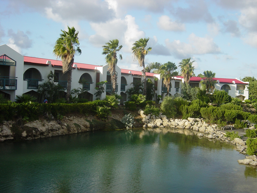 Plaza Resort Bonaire